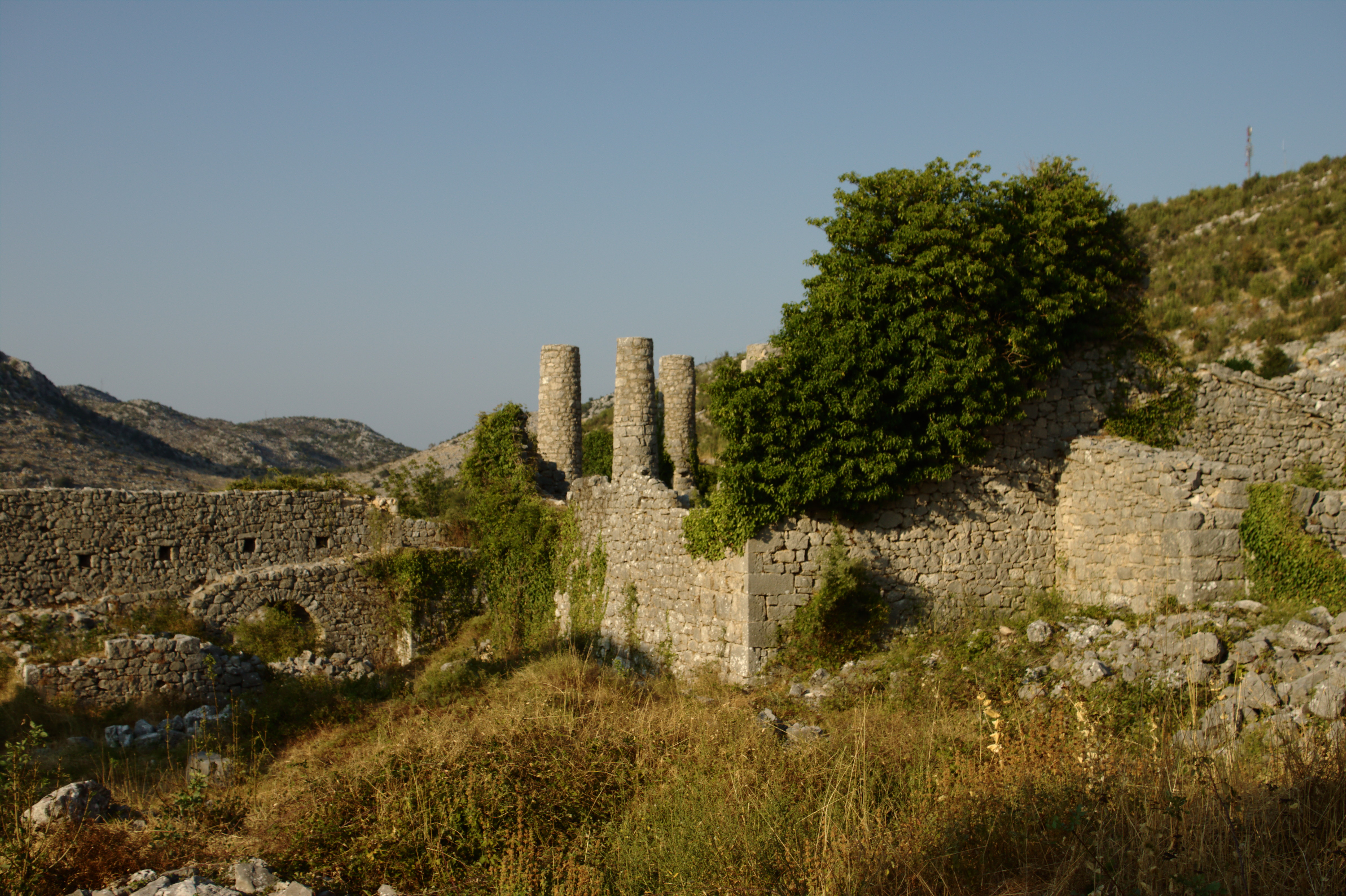 Remainings of a fortress near the town of Hutovo, Bosnia and Herzegovina